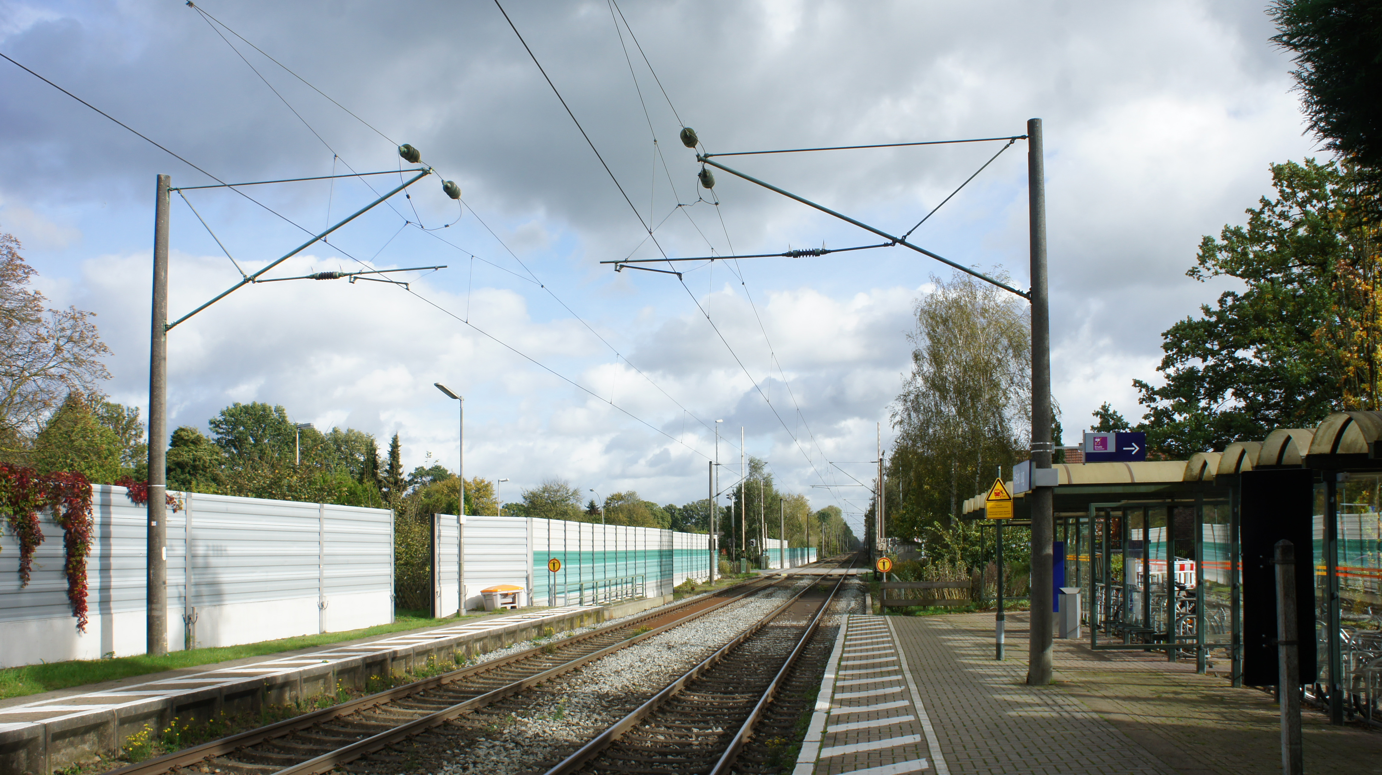 Railway Station Heidkrug near Delmenhorst